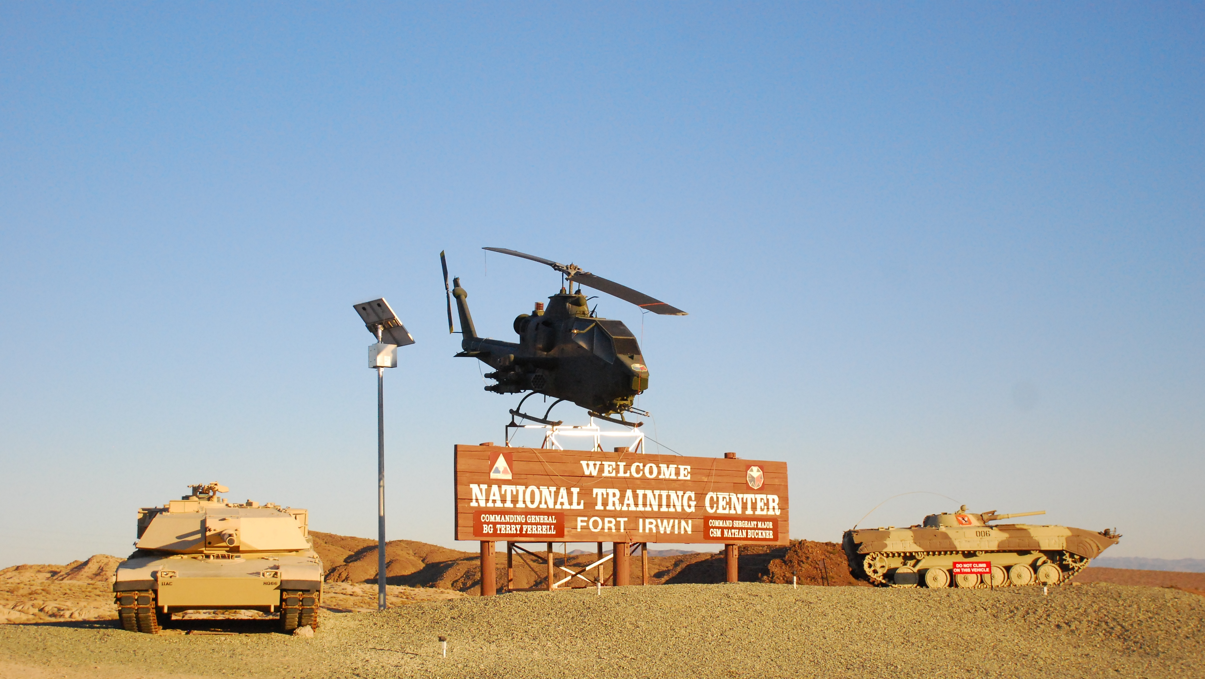 Welcome sign at Fort Irwin National Training Center in California with M1 Abrams tank (left), AH-1 Cobra Helicopter gunships (center) and a BMP-1 (right).